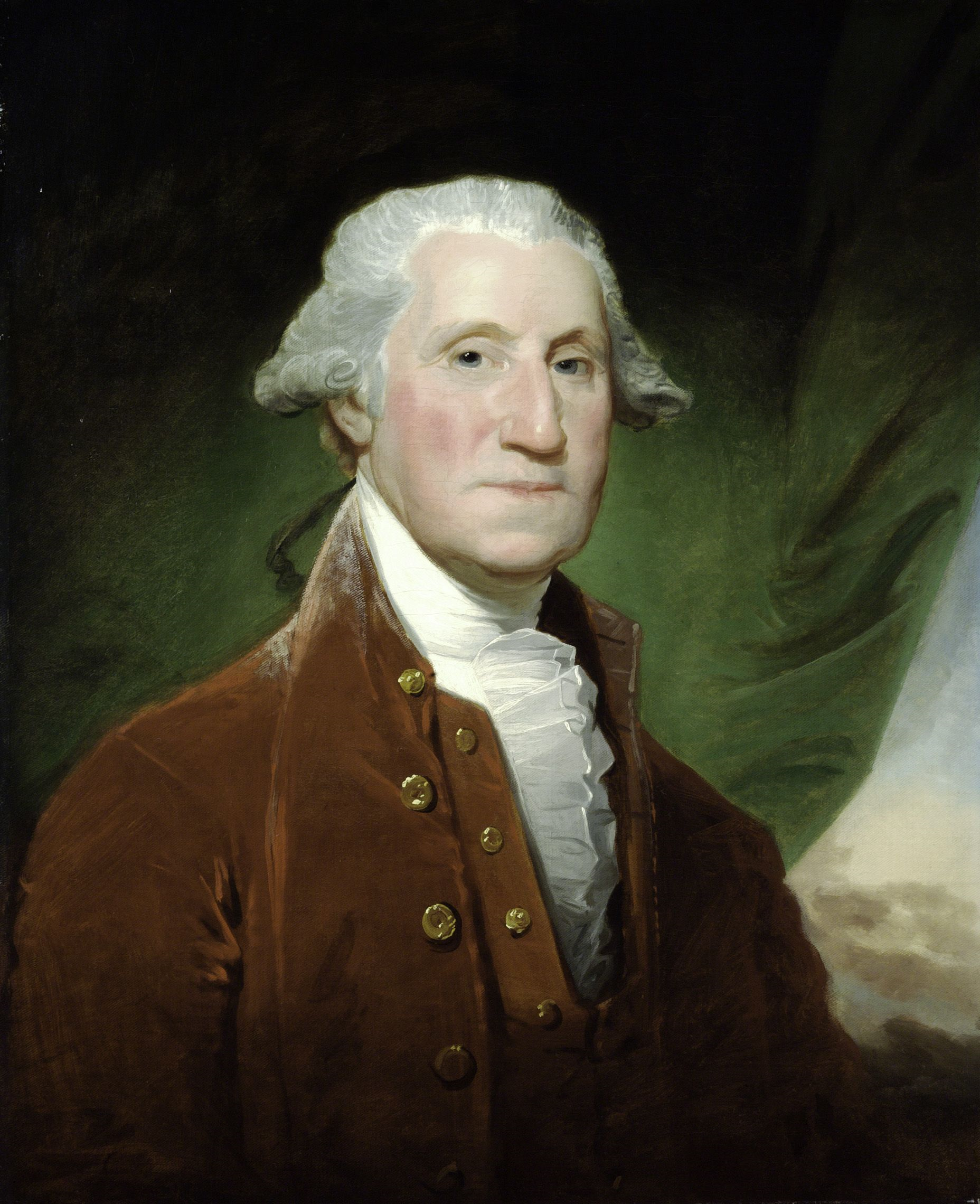 Stuart earned a fortune producing replicas of the three portraits he painted from life of the first President of the United States. The Frick canvas is thought to be one of two copies painted by the artist for the Philadelphia merchant John Vaughan. It belongs to the group known as the “Vaughan type,” although it differs from the related versions in the color of the coat and in the treatment of the background. Stylistically the portrait recalls the work of Stuart’s English contemporaries, such as Romney and Hoppner. Source: Art in The Frick Collection: Paintings, Sculpture, Decorative Arts, New York: Harry N. Abrams, 1996.